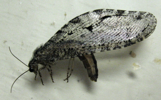 A Polystoechotes punctatus attracted to house lights after dark. Found 10 miles northeast of Republic, Ferry County, Washington, USA on August 21, 2008